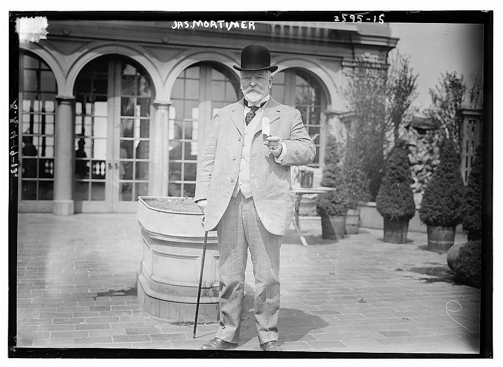 Bain News Service,, publisher. James Mortimer [between 1910 and 1915] 1 negative : glass ; 5 x 7 in. or smaller. Notes: Title from unverified data provided by the Bain News Service on the negatives or caption cards. Forms part of: George Grantham Bain Collection (Library of Congress). Format: Glass negatives. Repository: Library of Congress, Prints and Photographs Division, Washington, D.C. 20540 USA, General information about the Bain Collection is available at Persistent URL: Call Number: LC-B2- 2595-15